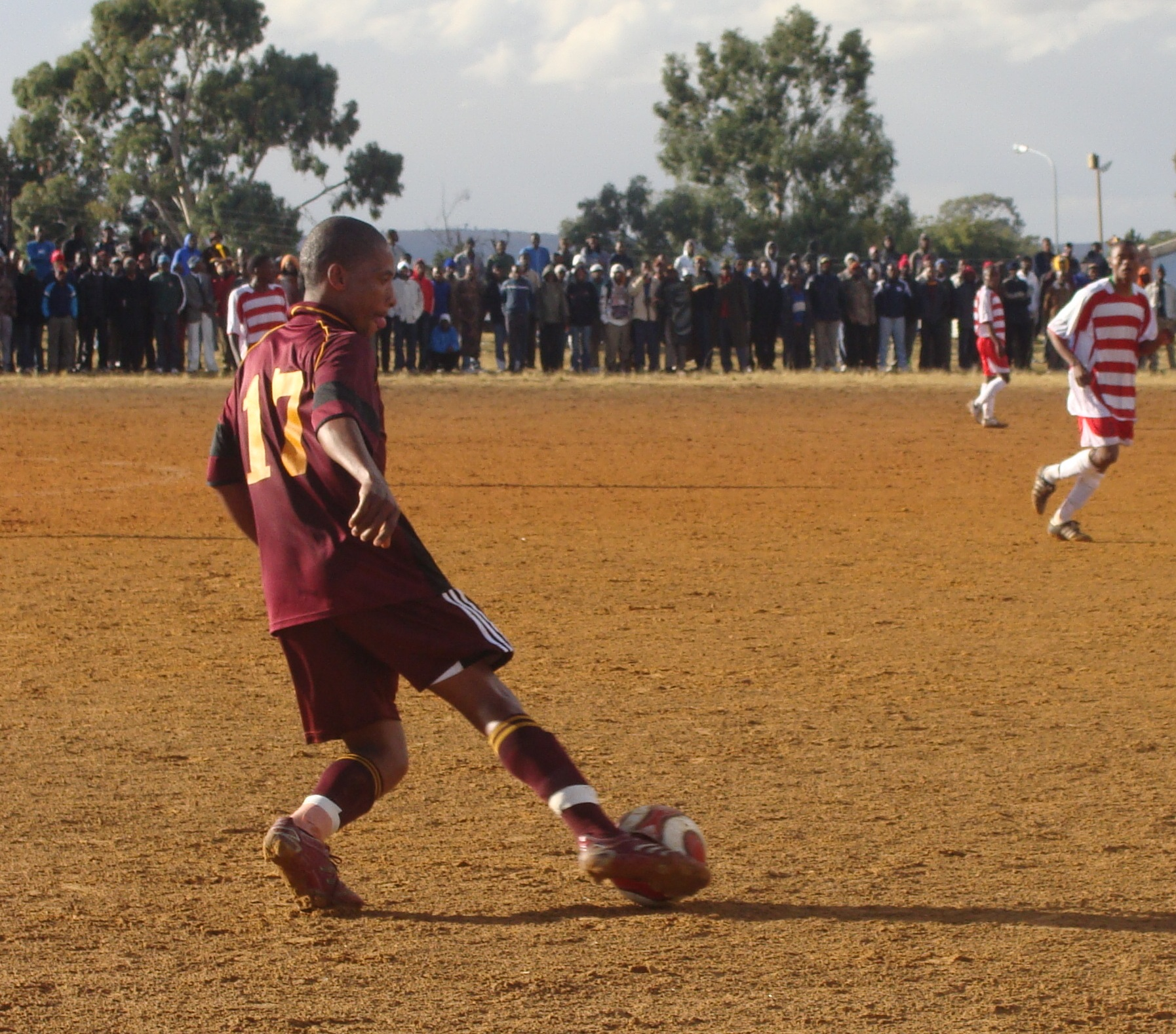 Skillful midfielder